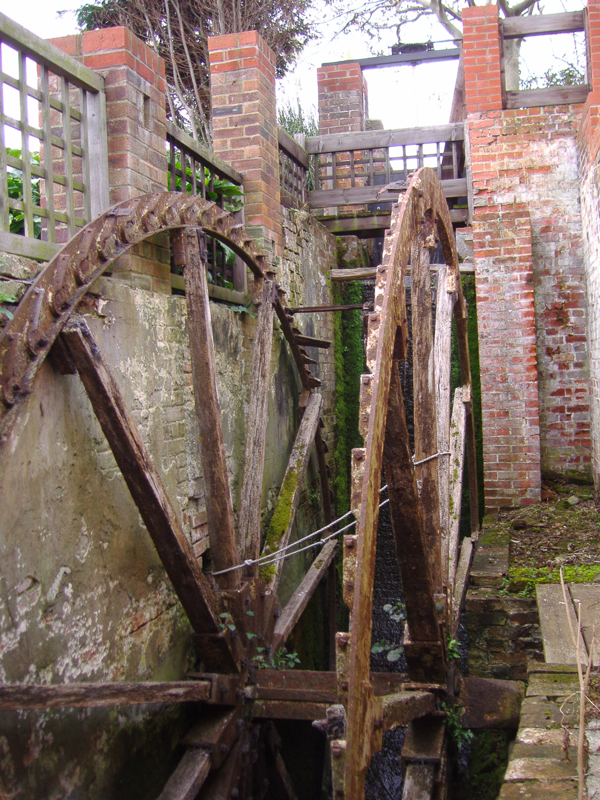 Waterwheel at Mudesley fed by the waters of the River Mun, Norfolk, England